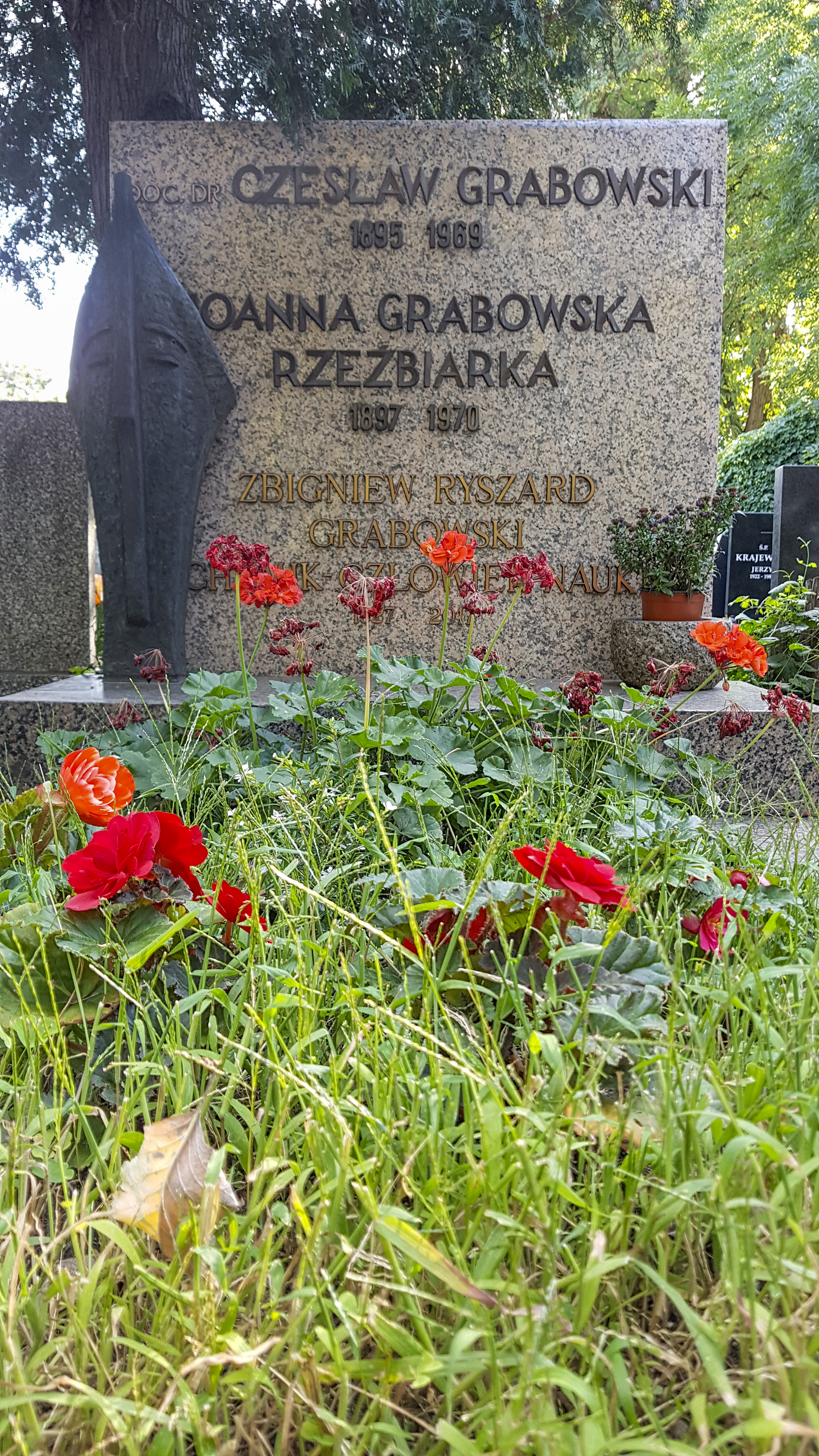 The grave of Joanna Grabowska - sculptor